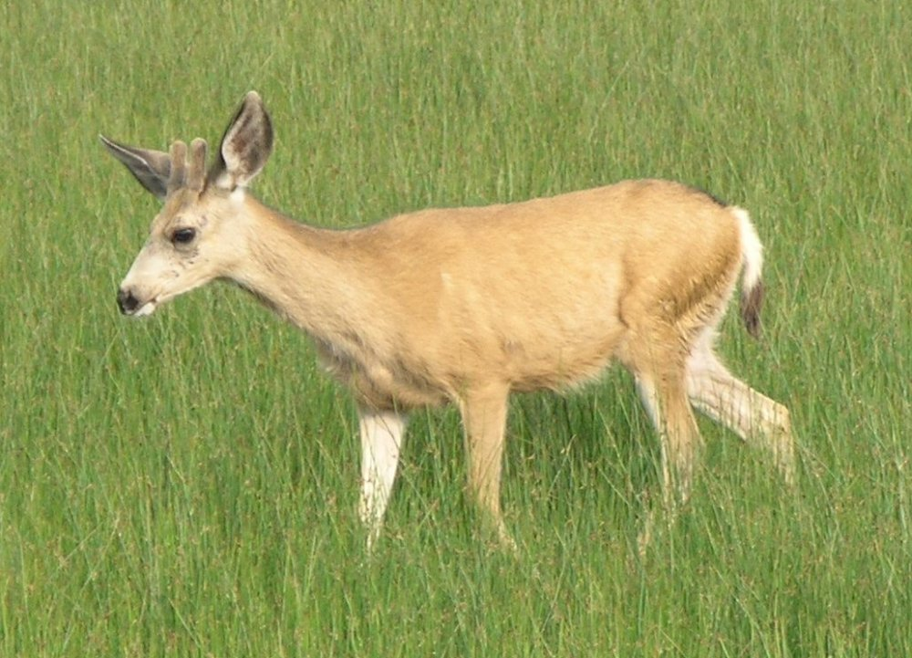 Mule deer, in Bryce Canyon NP, Utah, USA